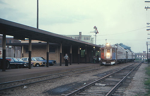 The Black Hawk at Rockford station in July 1975